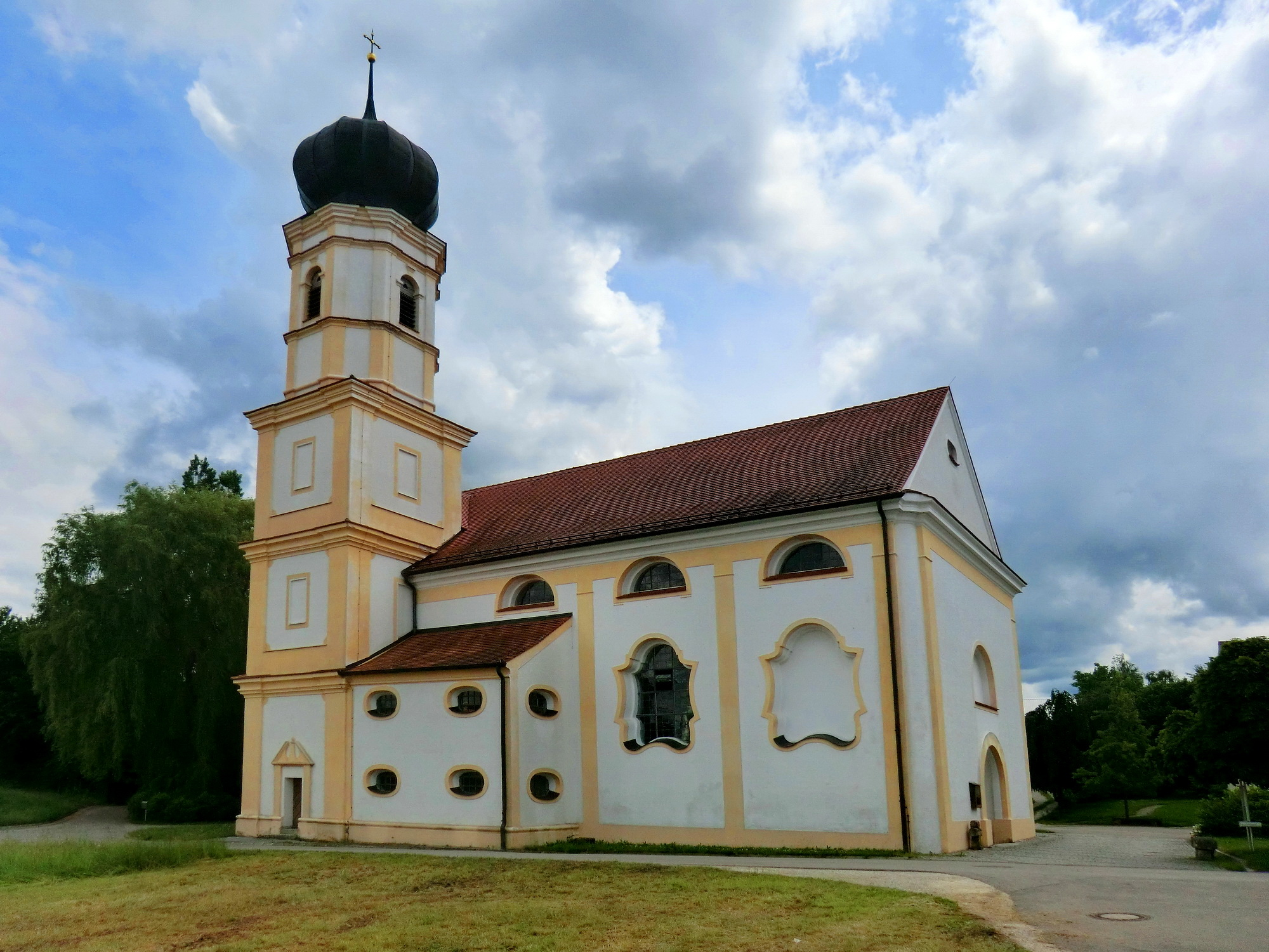 Pilgrimage Church of St Odile Native nameWallfahrtskirche St. OttiliaLocationHellring, Lower Bavaria, GermanyCoordinates48° 51′ 03.6″ N, 12° 03′ 59.15″ E Authority control : Q18716335 VIAF: 247374209 GND: 4487291-4 institution QS:P195,Q18716335